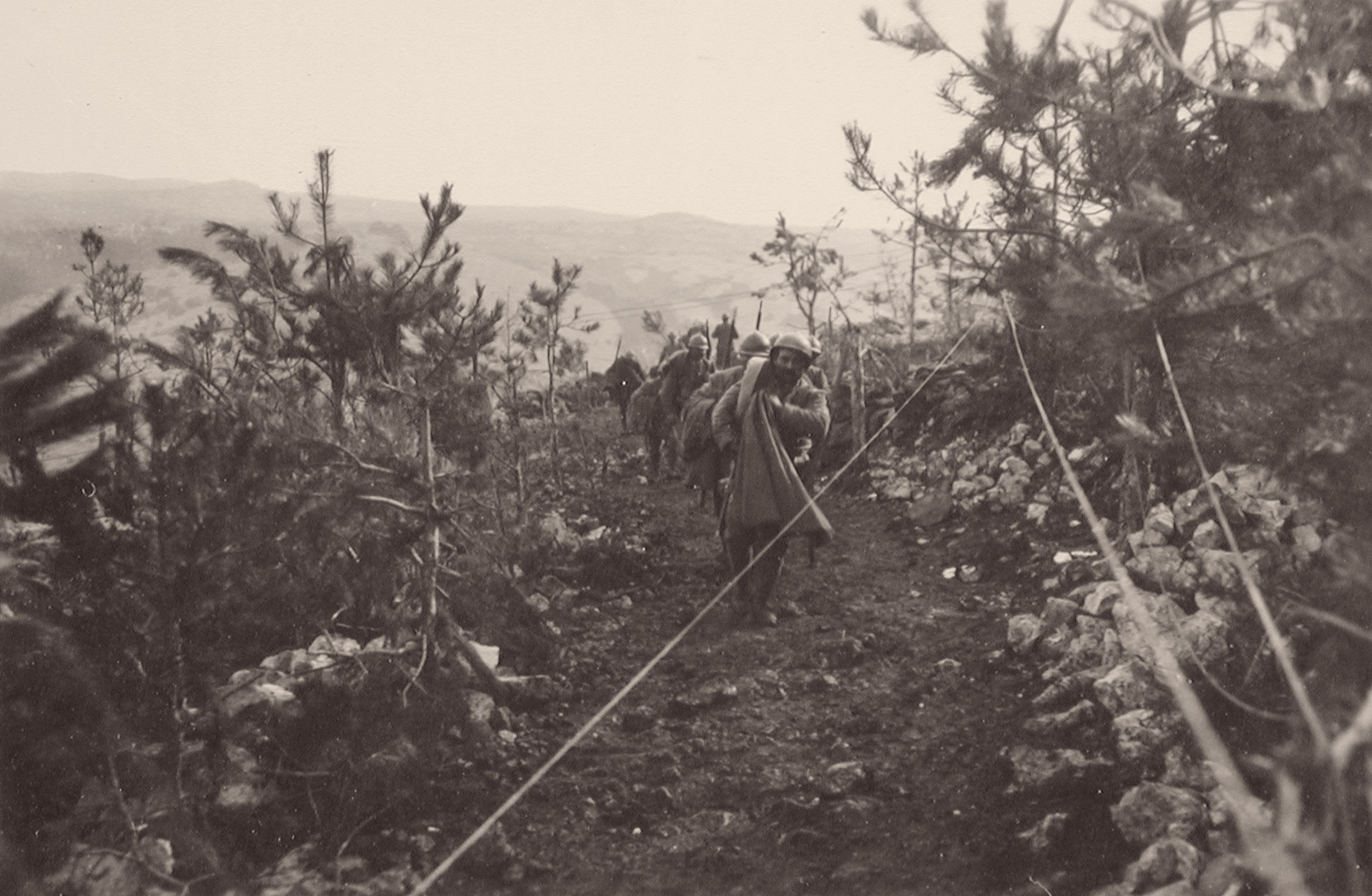 World War 1 - Italian Army: Seventh Battle of the Isonzo - Italian reinforcements